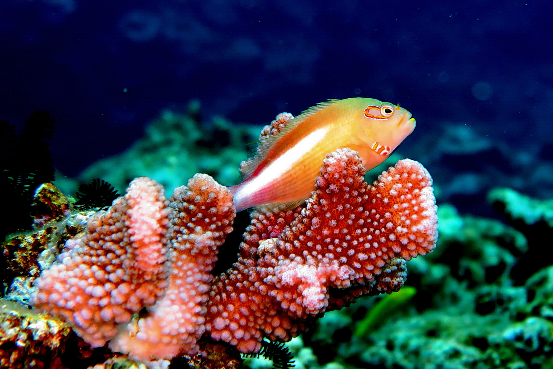 This Arc-eye hawkfish (Paracirrhites arcatus) was found at offshore of Tokashiki Island, a famous diving site located at west of Okinawa, at the depth of 10 meters. The photo was taken by Vincent C. Chen on June 6, 2015